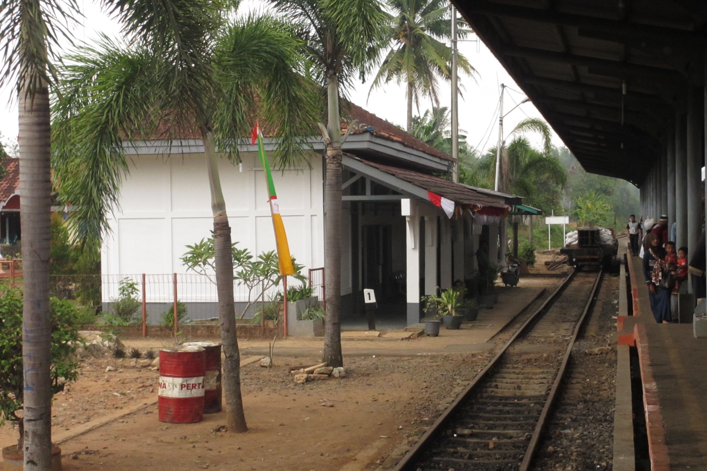 Tegineneng Railway Station.